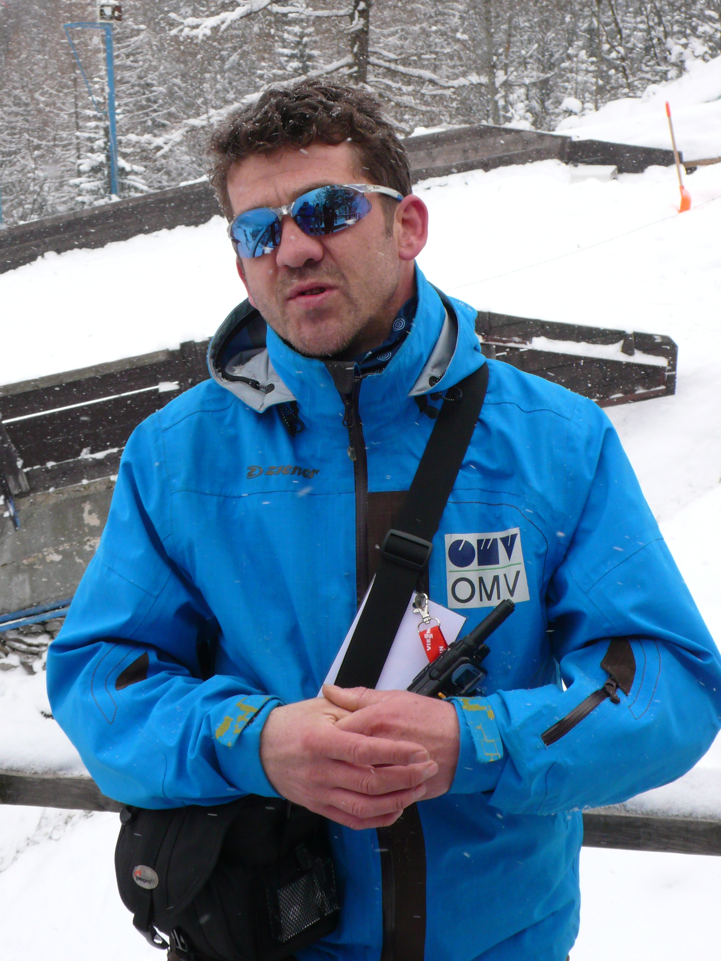 Jaroslav Sakala: coach of the Czech skijumping ladies team during 2009/2010.